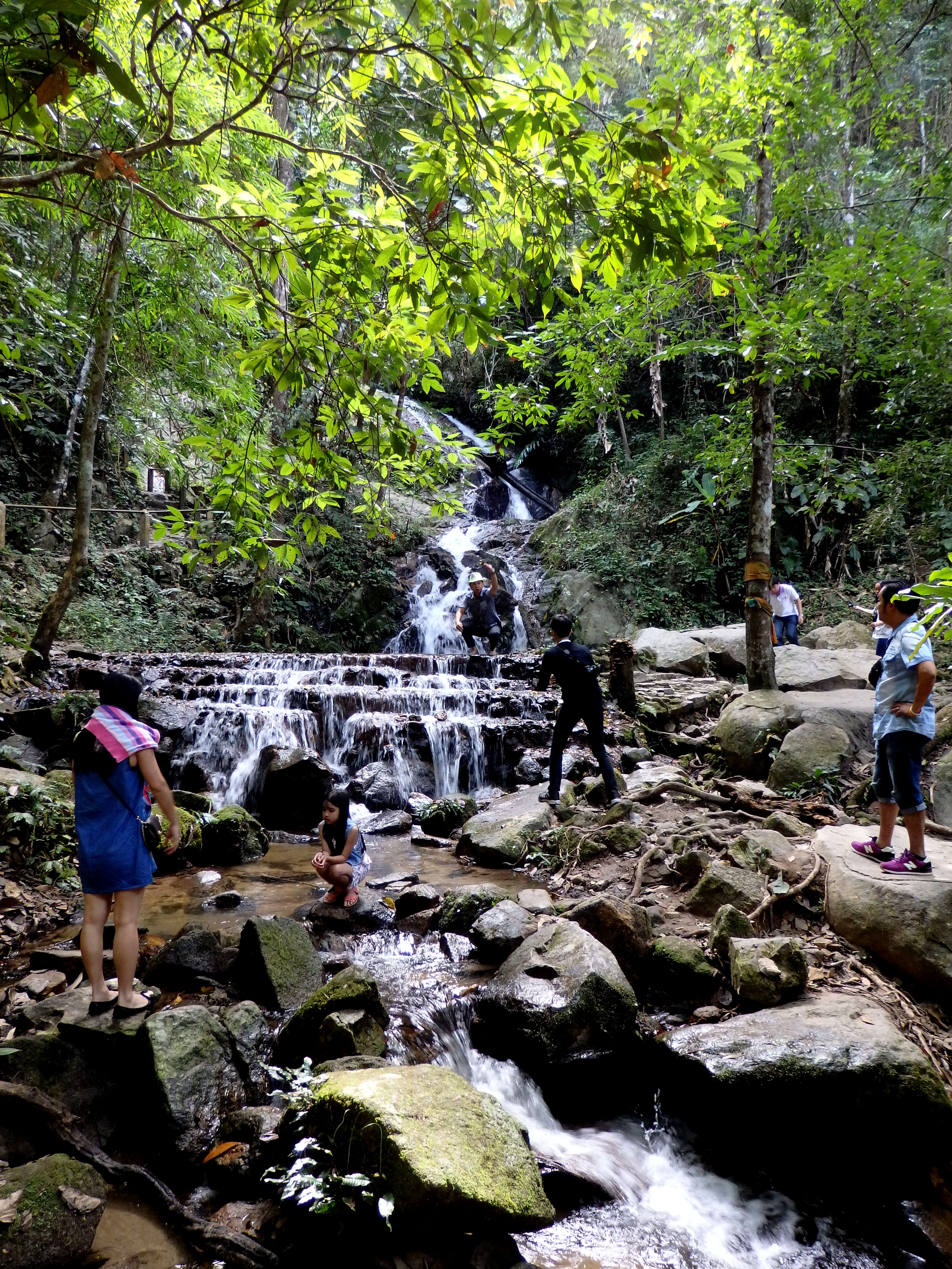 Huai Kaeo, Mae On District, Chiang Mai, Thailand